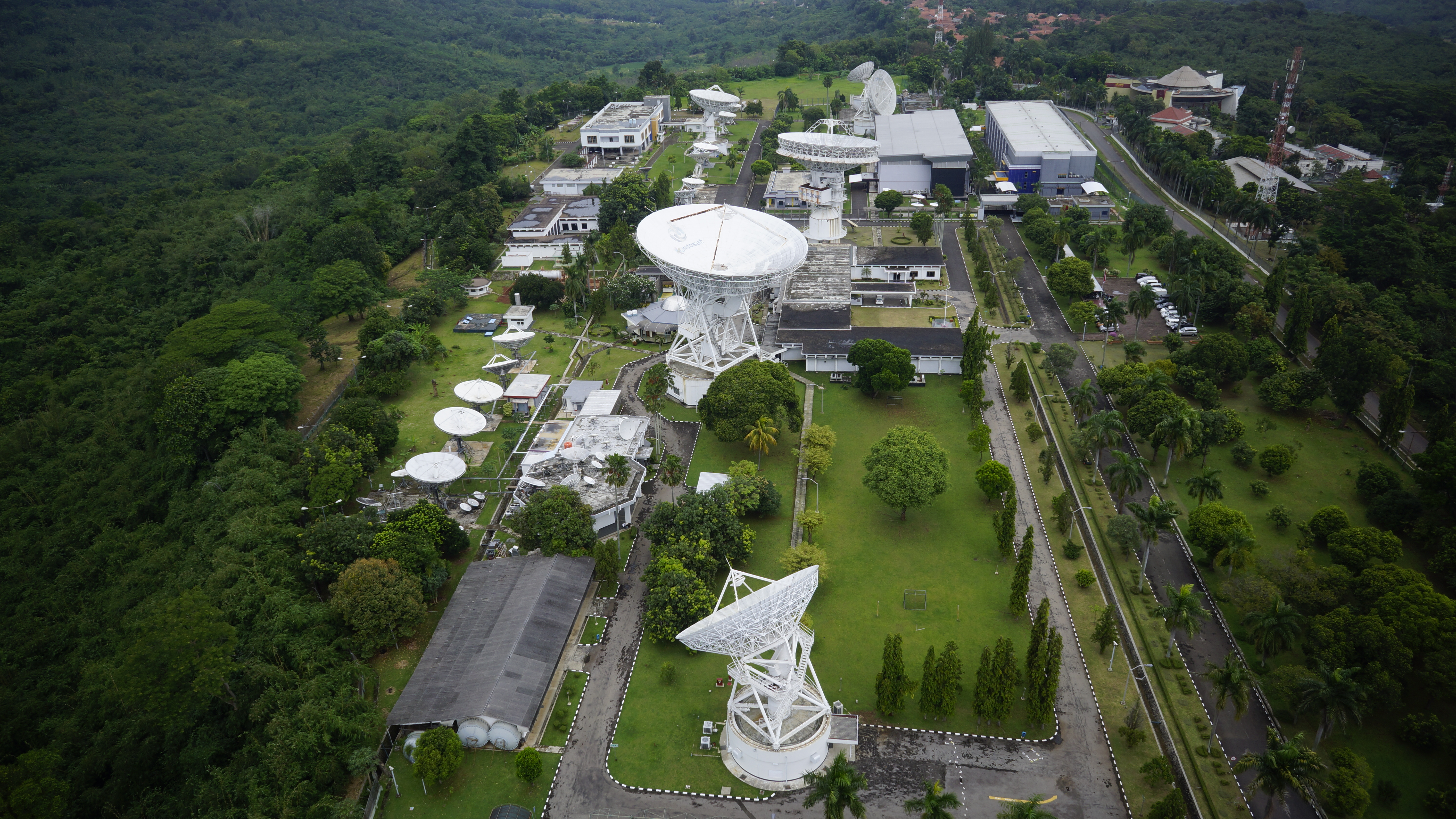 An aerial photo of Indosat's Earth Station